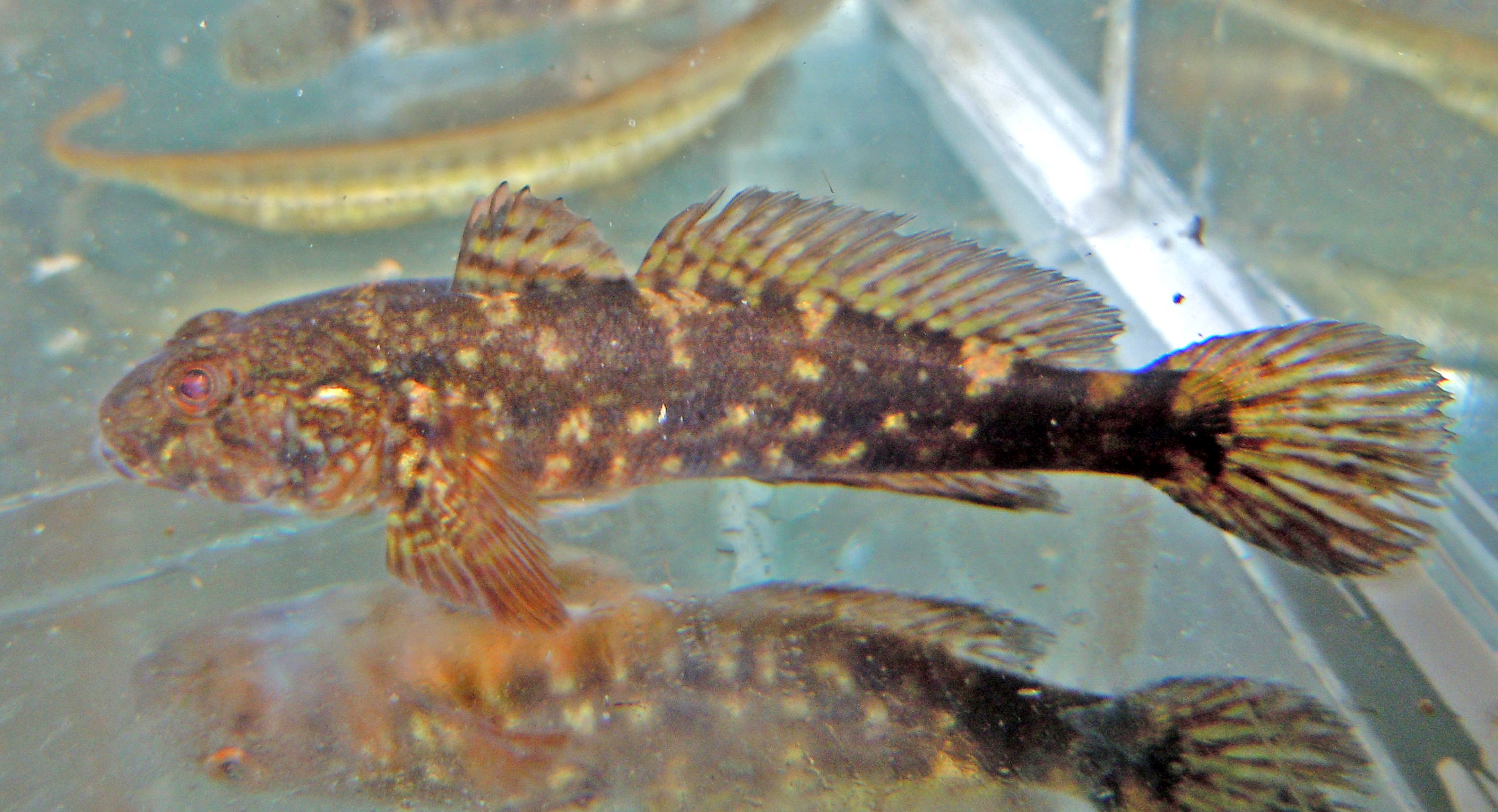 Pinchuk's goby (Ponticola cephalargoides) from the Gulf of Odessa, Ukraine